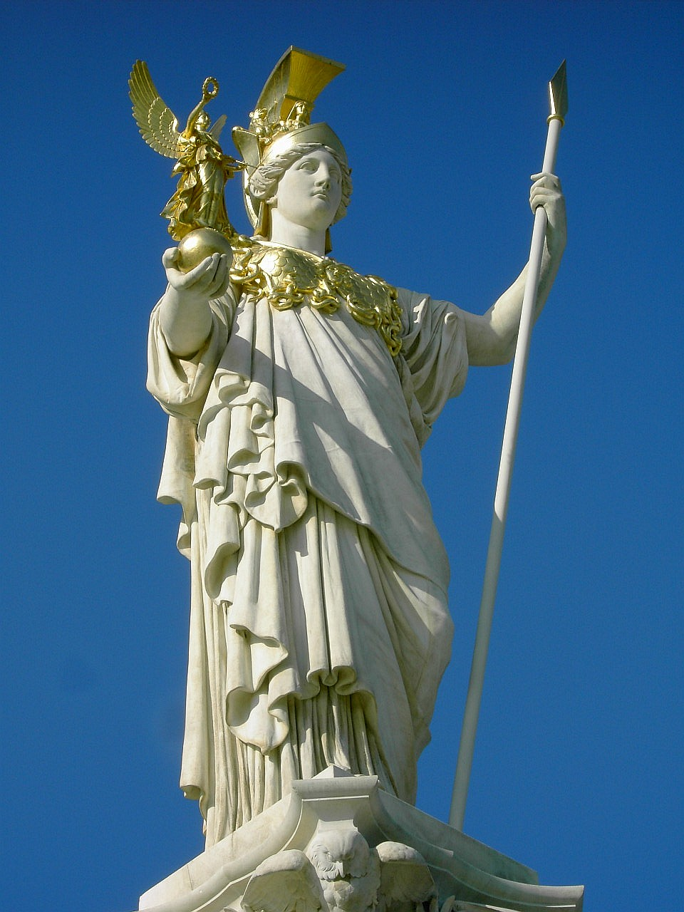 Pallas Athene Statue